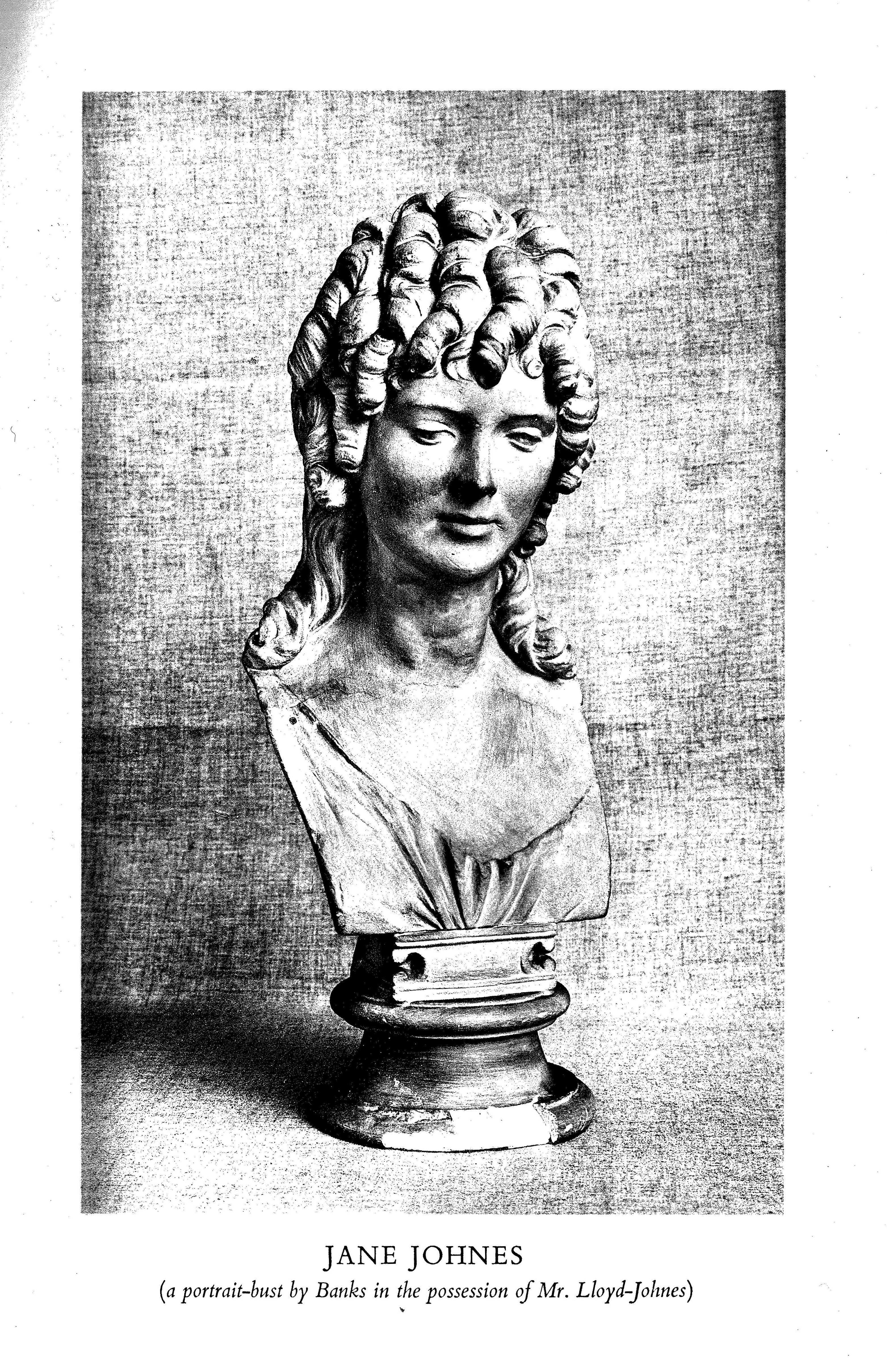 Jane Johnes, a sculpture by Thomas Banks